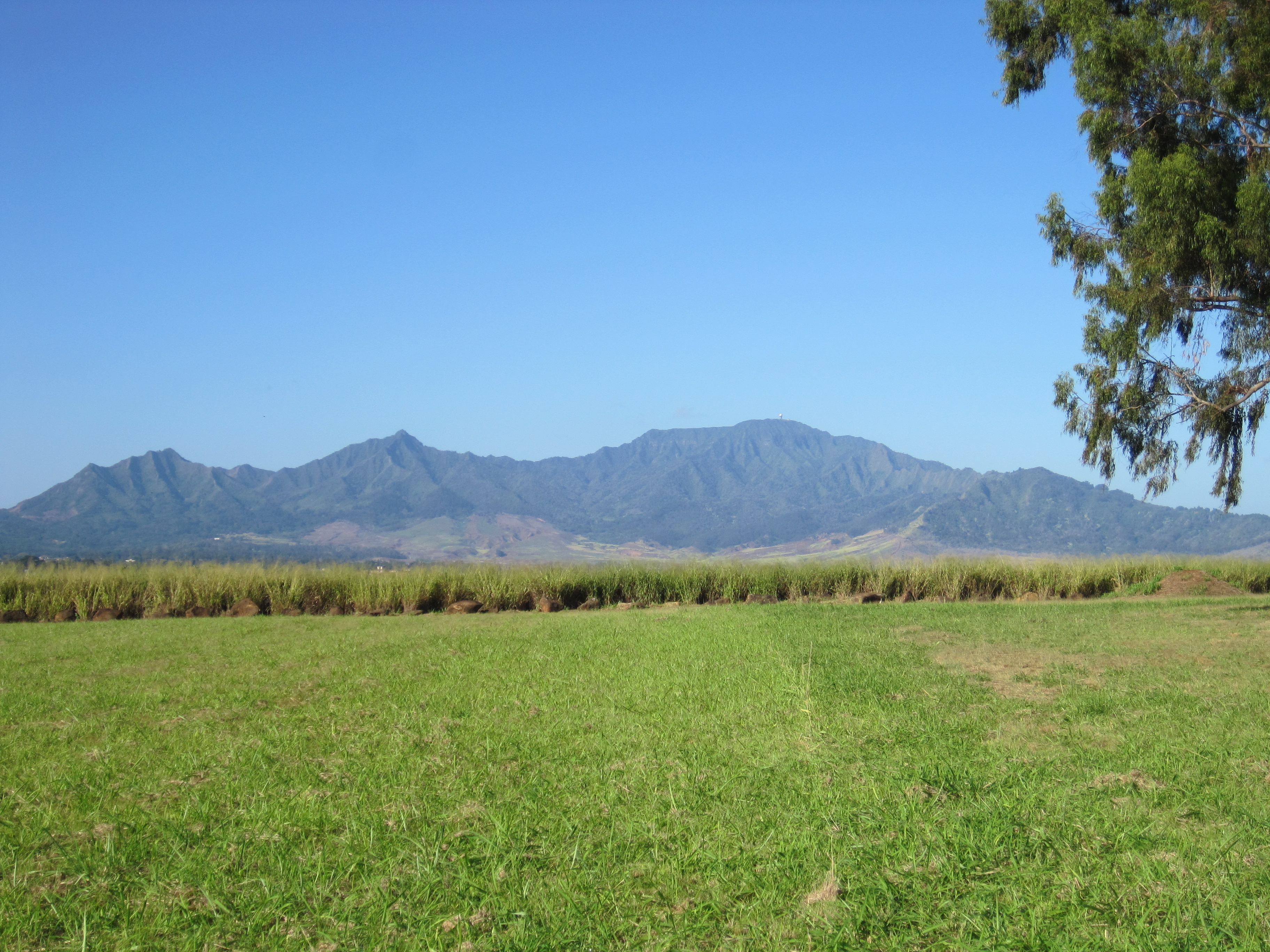 Shape of northern Waiʻanae Range from Kukaniloko State Park, on National Register of Historic Places, said to resemble a pregnant woman reclining